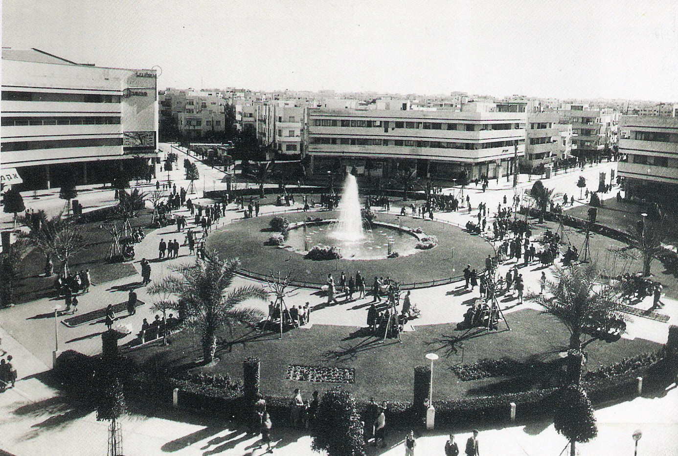 Ditzengoff Square in Tel Aviv.